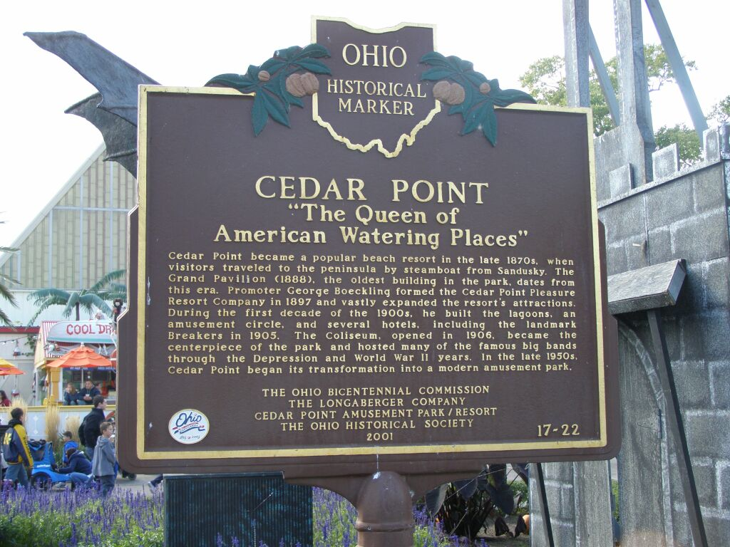 Ohio Historical Society Historic Marker at Cedar Point, Ohio